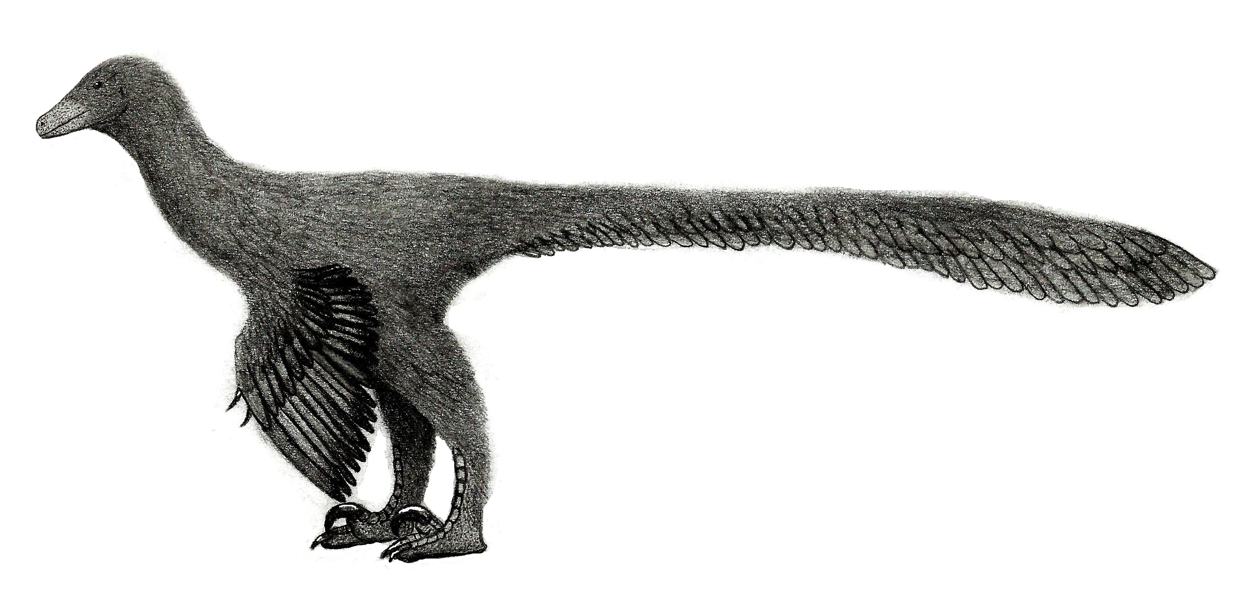 Life restoration of Boreonykus.